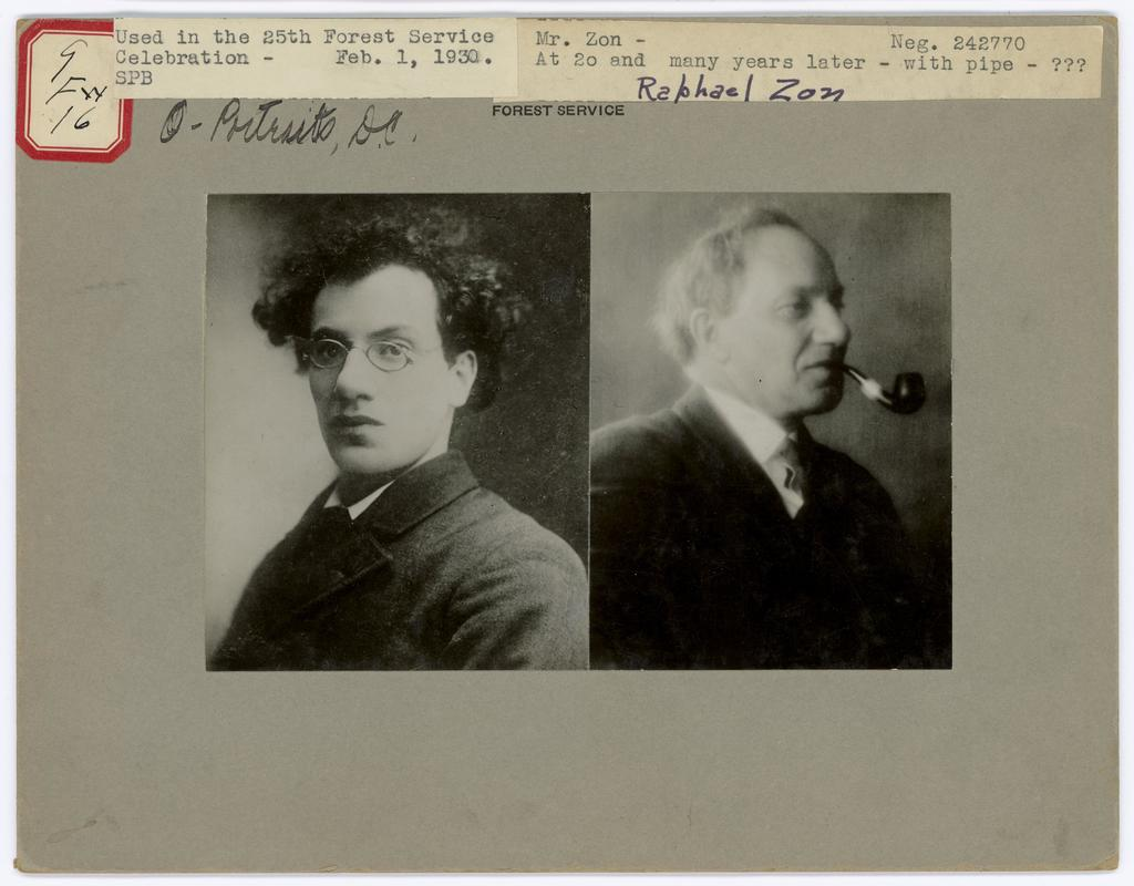 RG# 95-GP Records of the Forest Service General Subject Files Negative Number: 242770 001966_242770_16300_2007_001